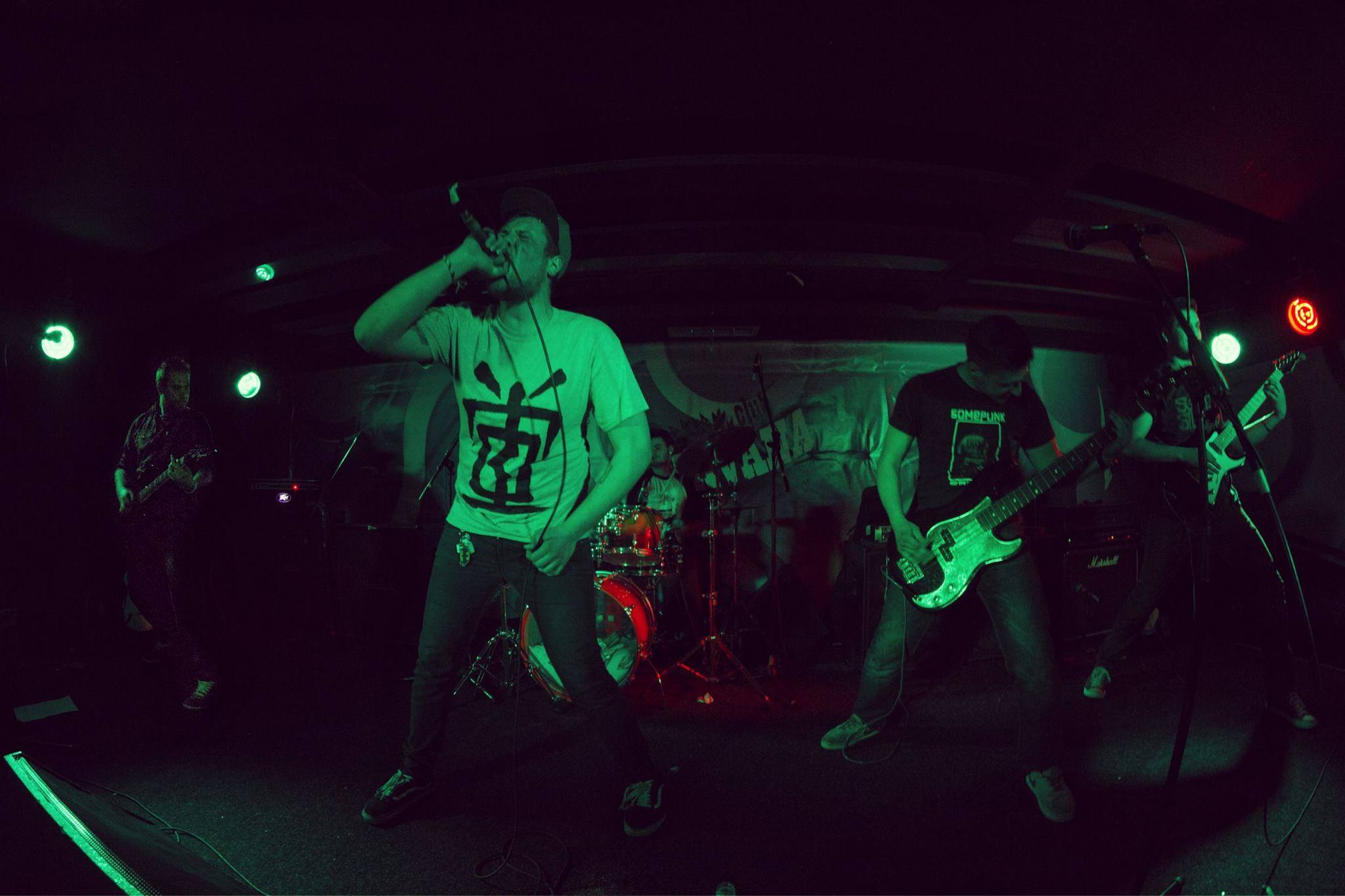 Outlaw live performance